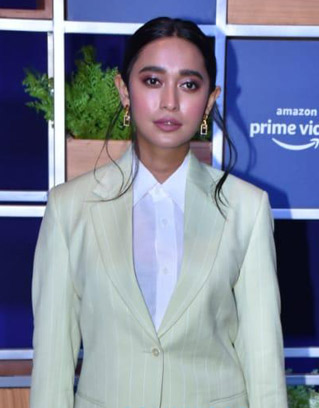 Sayani Gupta at Amazon Prime Event in 2020